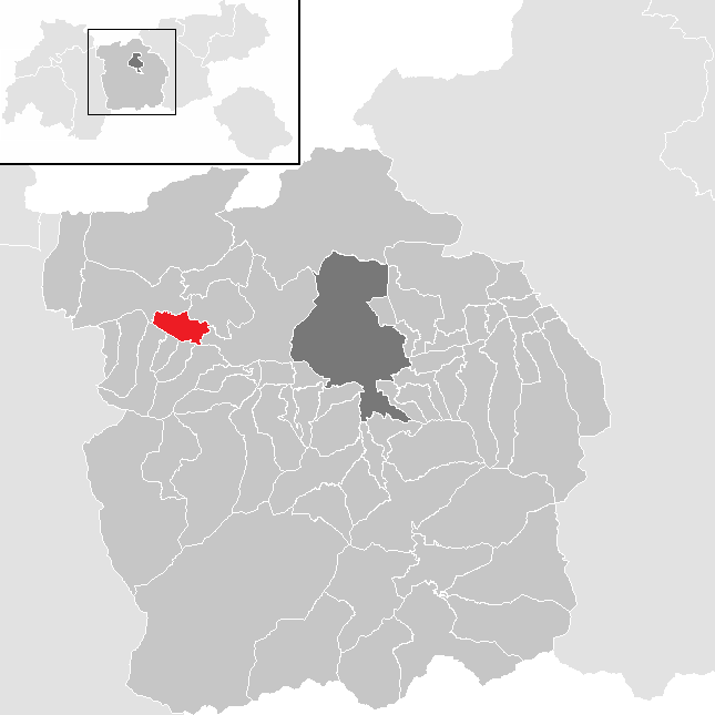 District Innsbruck Land